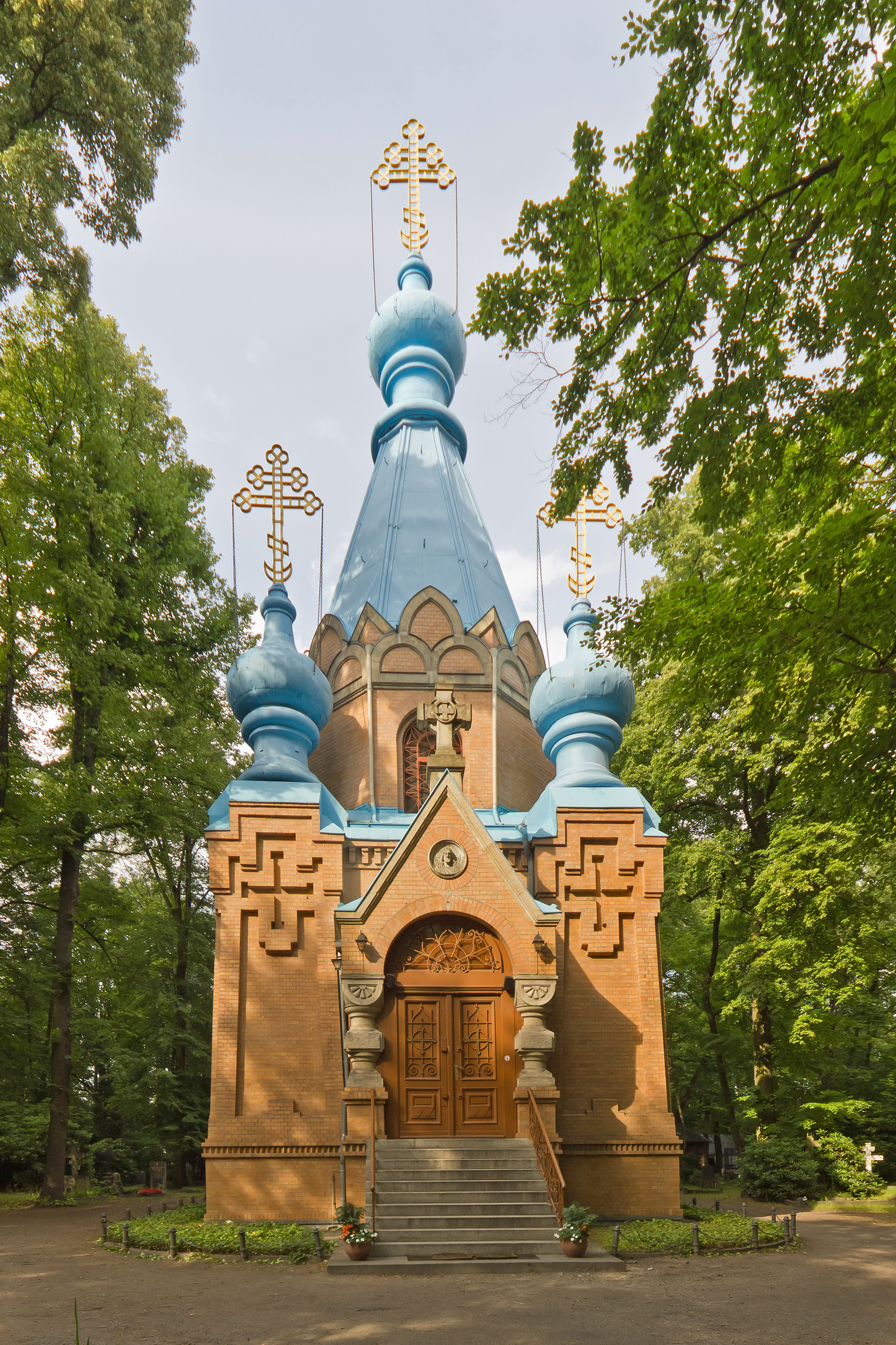 Cemetery chapel of Tegel Russian Orthodox Cemetery in Berlin, Germany